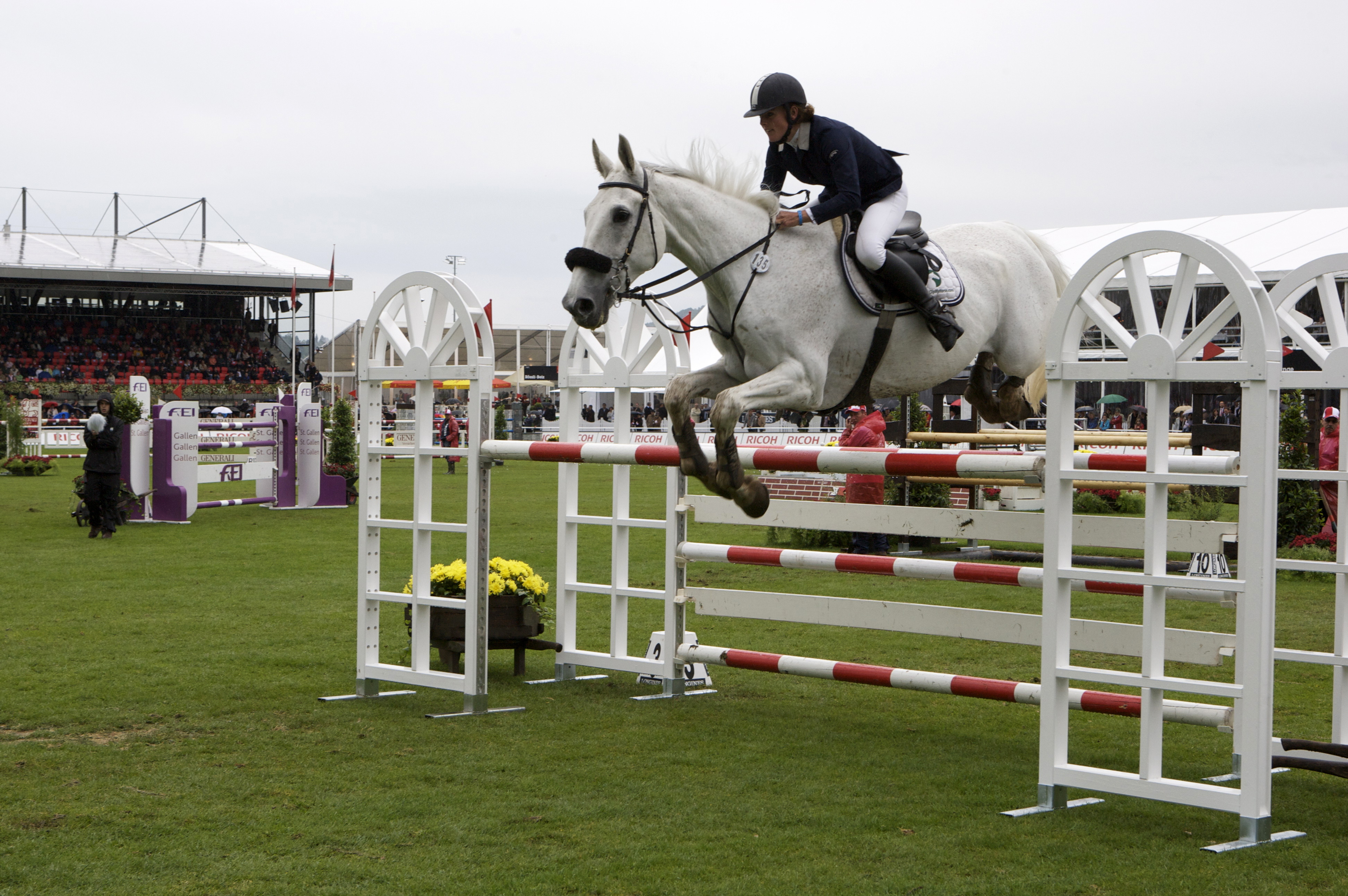 background: The "Hauptstadion" of the CSIO Schweiz - in front: Simone Wettstein (Switzerland) with Cool Man